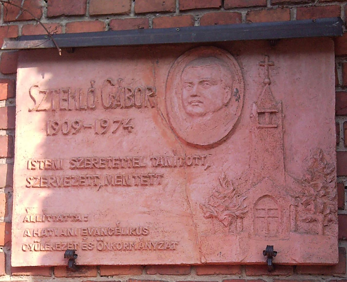 Gábor Sztehlo commemorative plaque in Hatvan, Hungary (on the wall of the lutheran church)